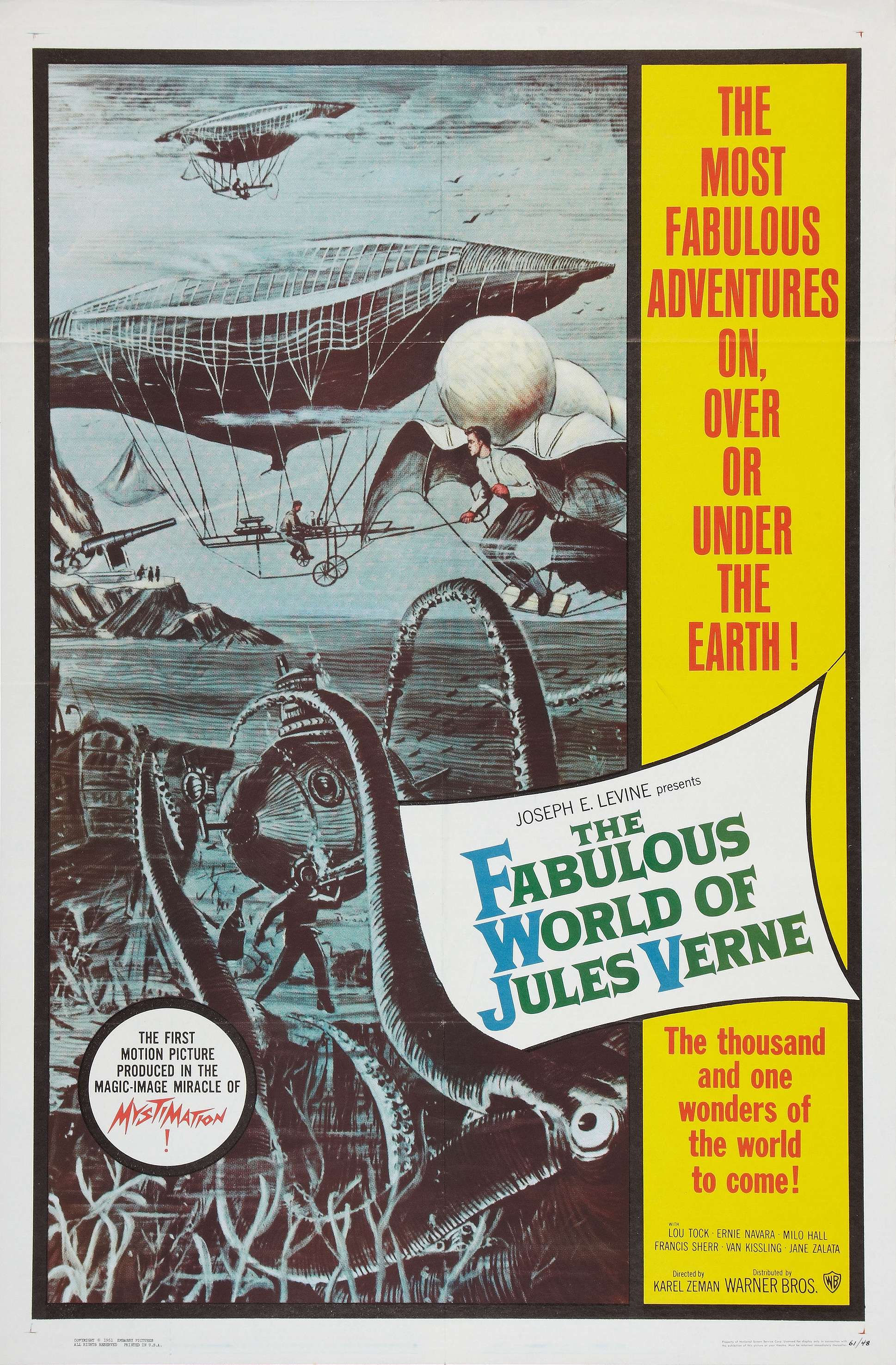 Theatrical poster for the film The Fabulous World of Jules Verne (original Czech title: Vynález zkázy) (1958).